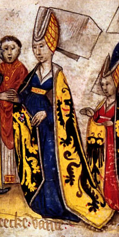 Margaret of Dampierre